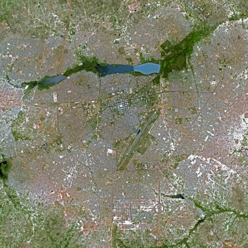 Ouagadougou by SPOT Satellite